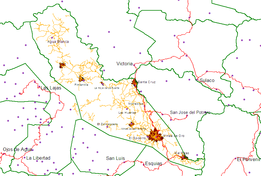 Map of the municipality of Minas de Oro, Comayagua, Honduras